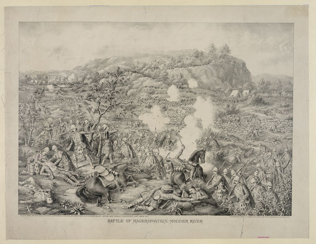 Contemporary sketch of the Battle of Magersfontein, circa 1899. Titled Battle of Magersfontein (Modder River) in Library of Congress catalogue.